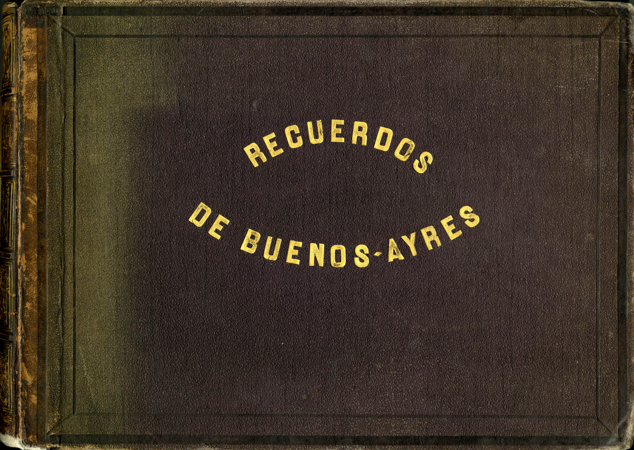 Cover of Recuerdos de Buenos Ayres, a photo album with images by Esteban Gonnet